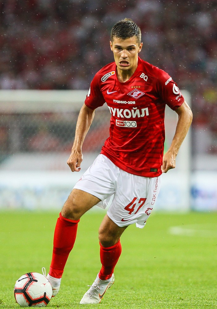 Roman Zobnin